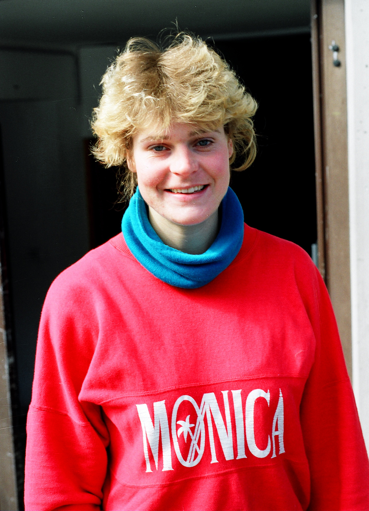 Gunda Niemann is a former German speedskater